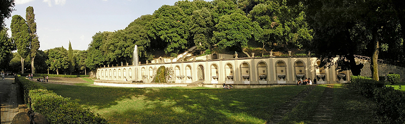 Frascati, Villa Torlonia - Teatro delle acque.